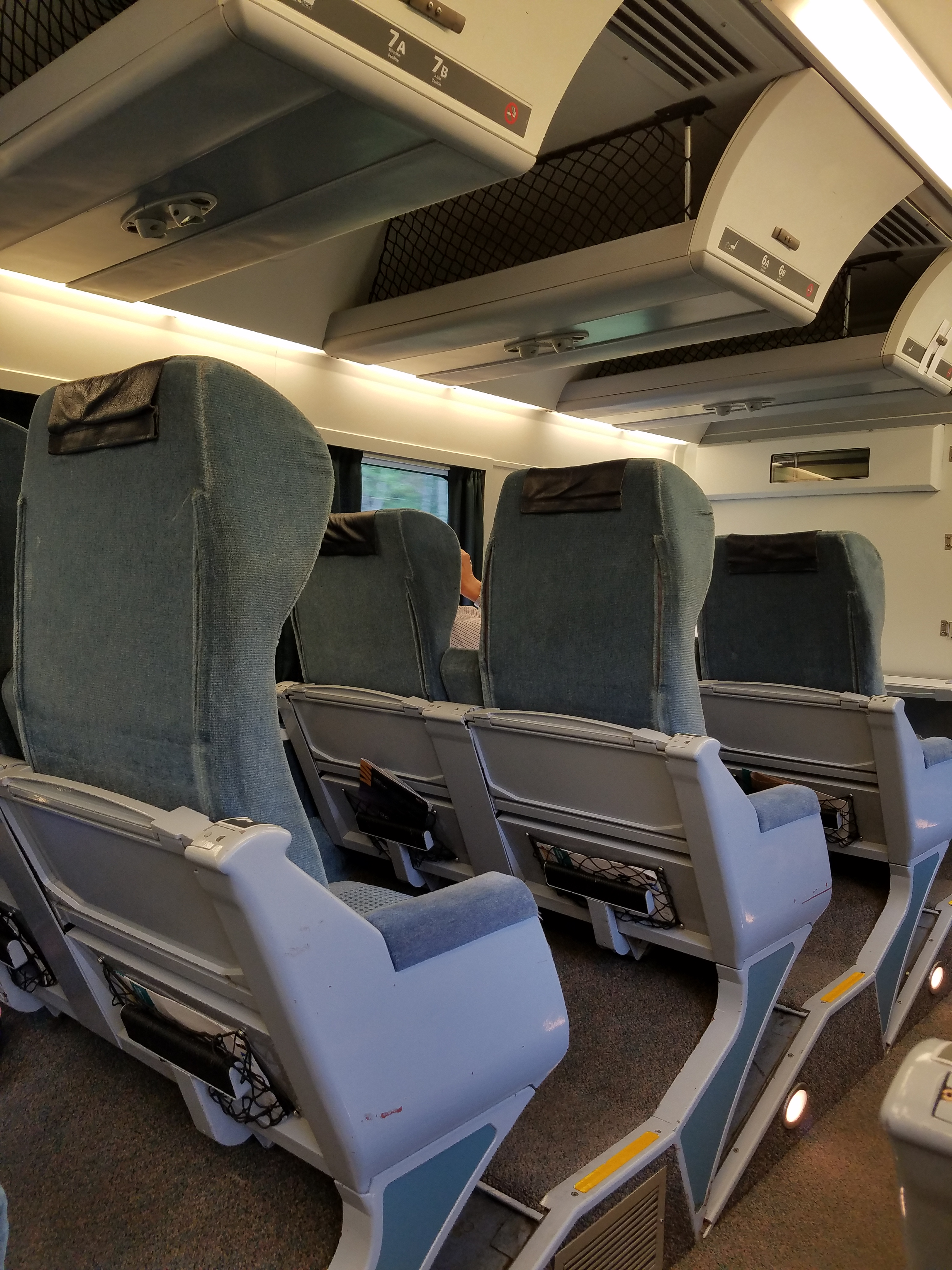 Originally built for overnight Channel Tunnel service in the UK.